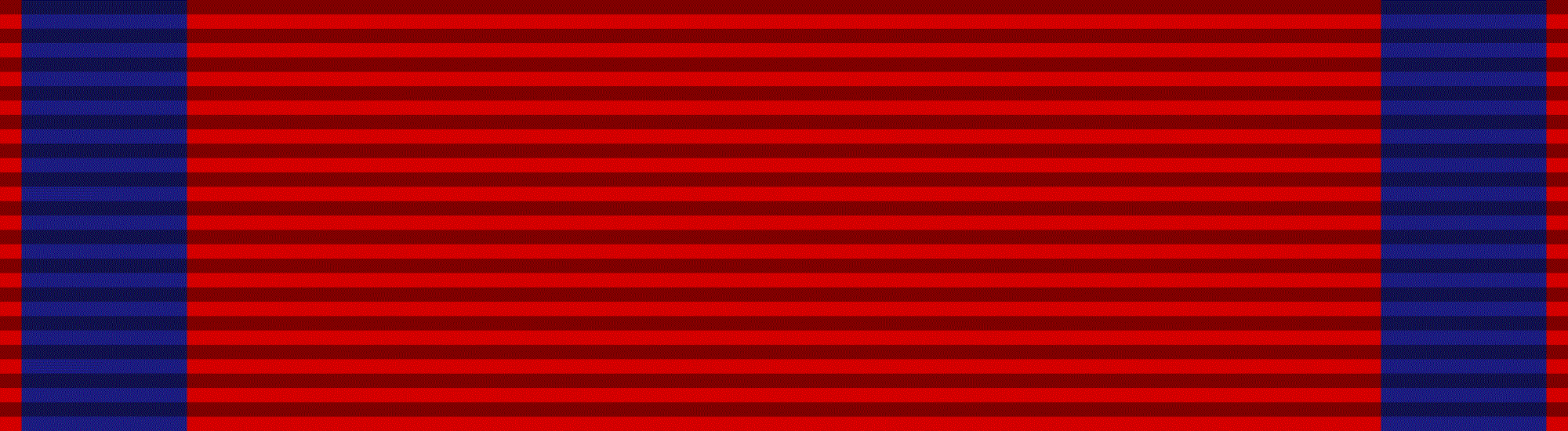 Ribbon of Supreme Order of the Chrysanthemum (Japan)